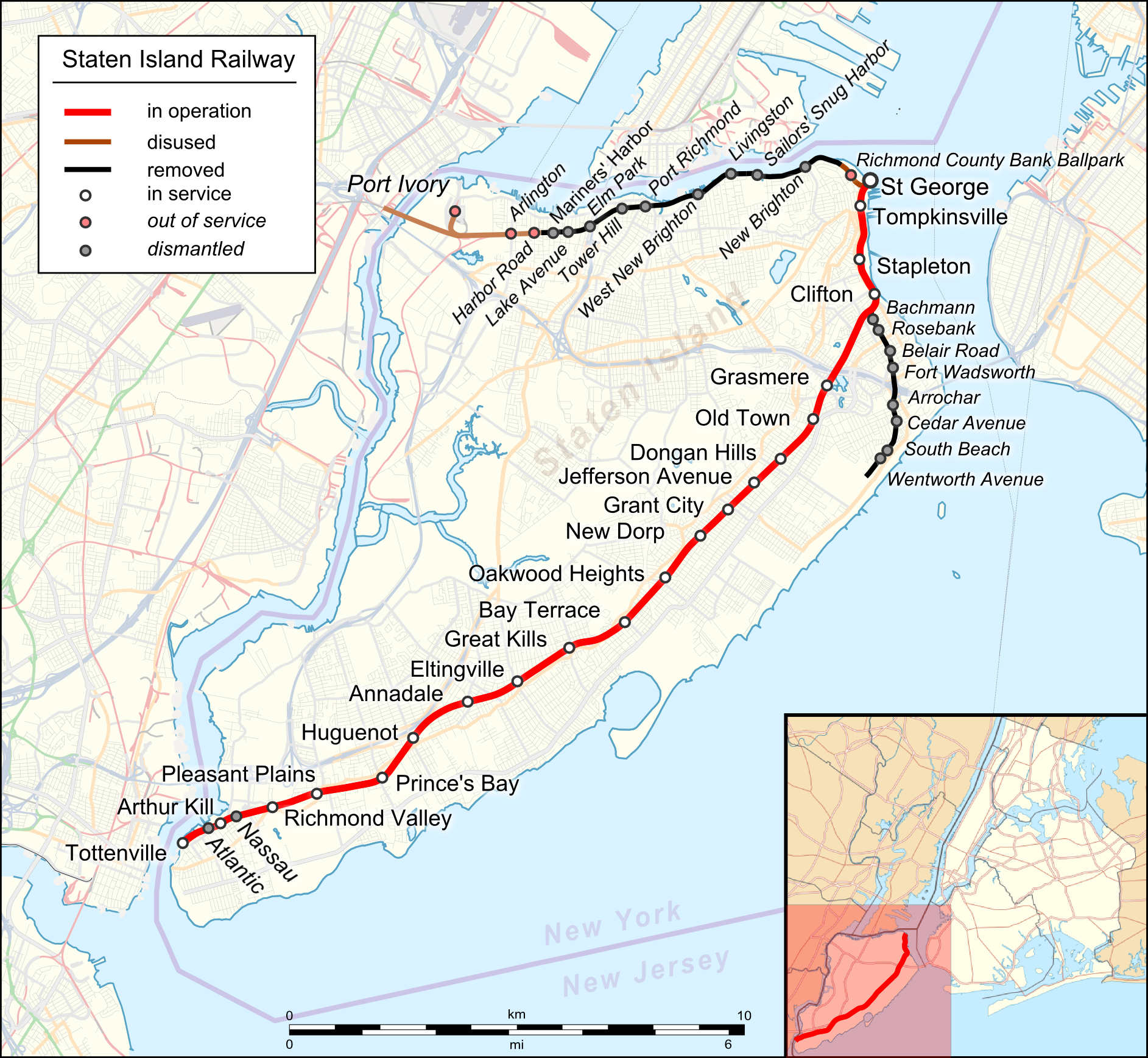 Location map of Staten Island Railway. English Index